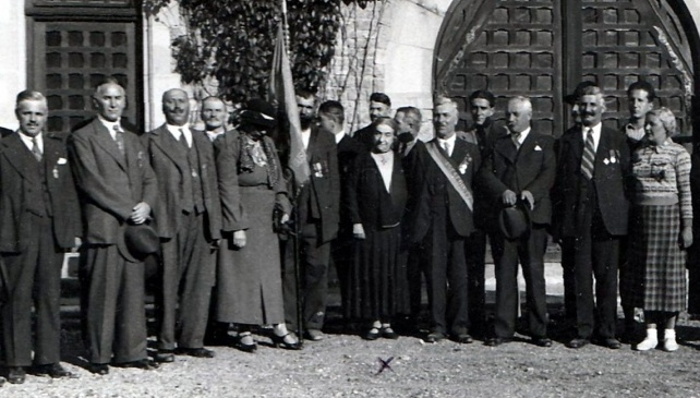 Romanian feminist activist Alexandrina Gr. Cantacuzino (center marked X) with visitors, at the Cantacuzinos' Zamora Castle, Buşteni, Prahova.